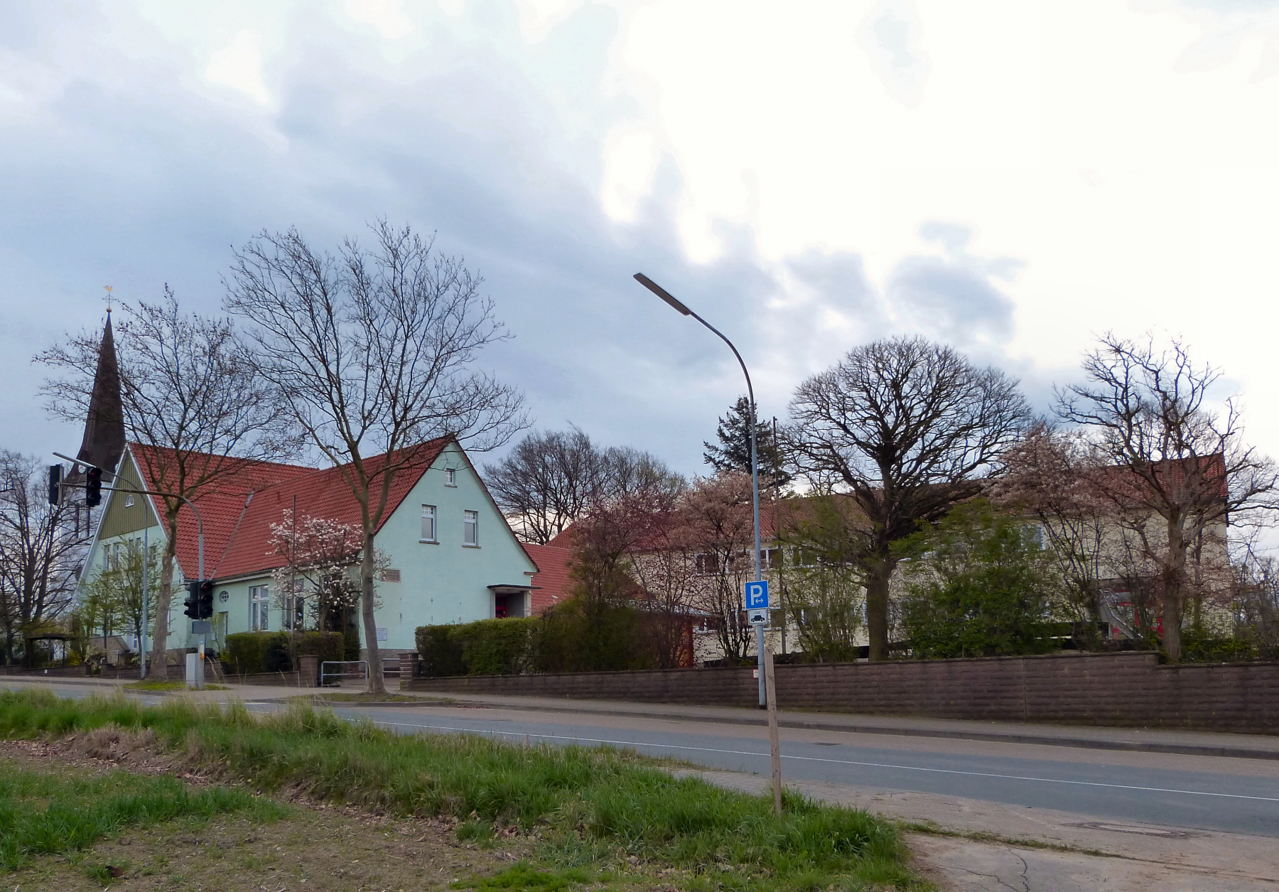 Elementary School, Martin Luther Church and the kindergarten in the district of Lohe of the city of Bad Oeynhausen